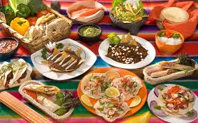 Comida típica del lugar.